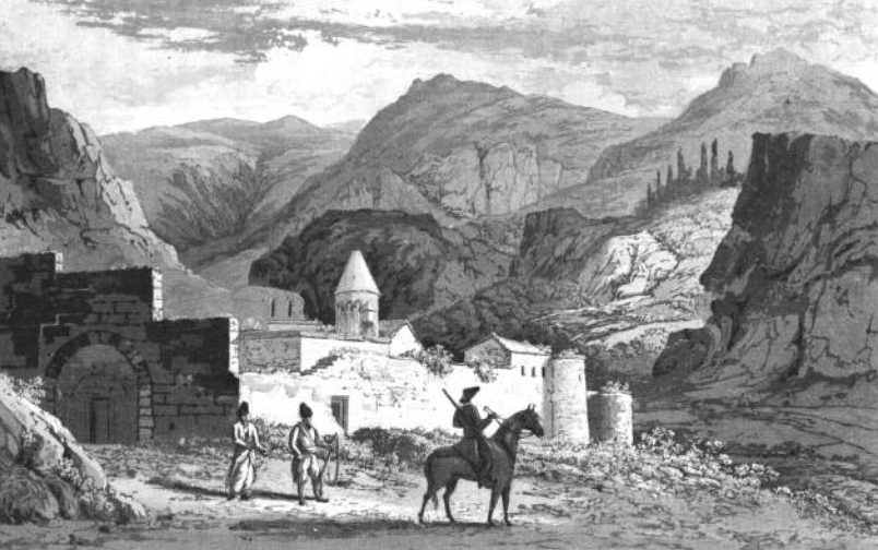 Geghard